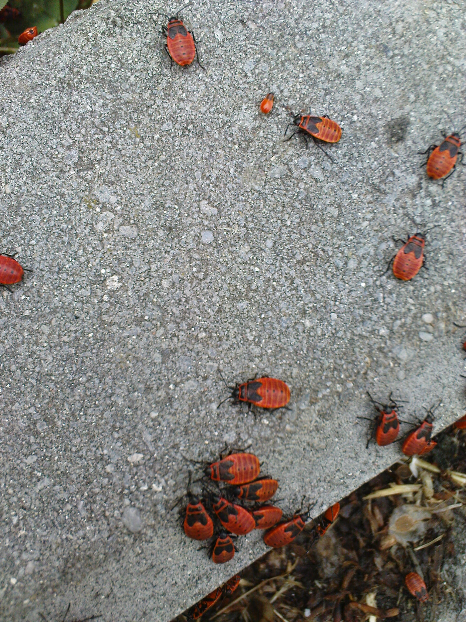 Pyrrhocoris apterus